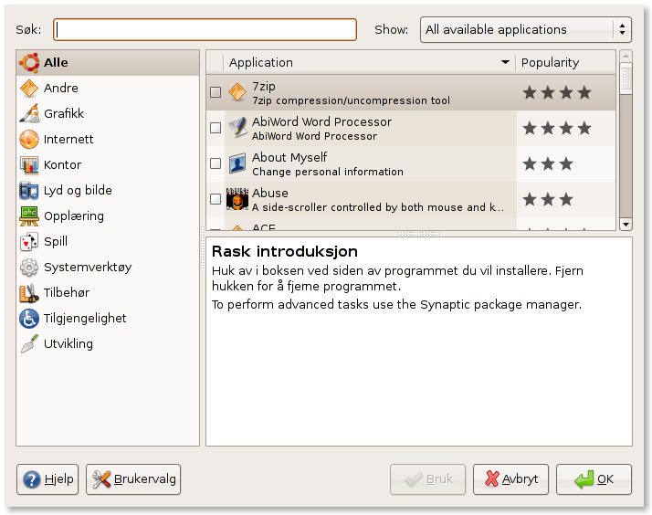 Gnome-App-Install Screenshot (Norwegian translation)